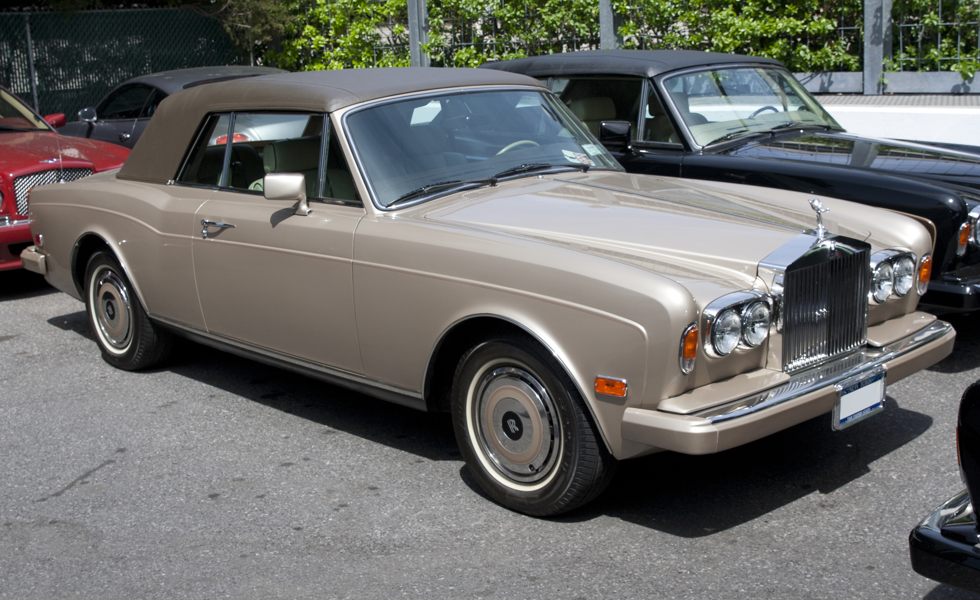 1989 Rolls-Royce Corniche II, the last year without airbags (active seatbelts). There were a half dozen Corniche/Continental convertibles around, presumably getting fettled for summer or pre-summer sales.